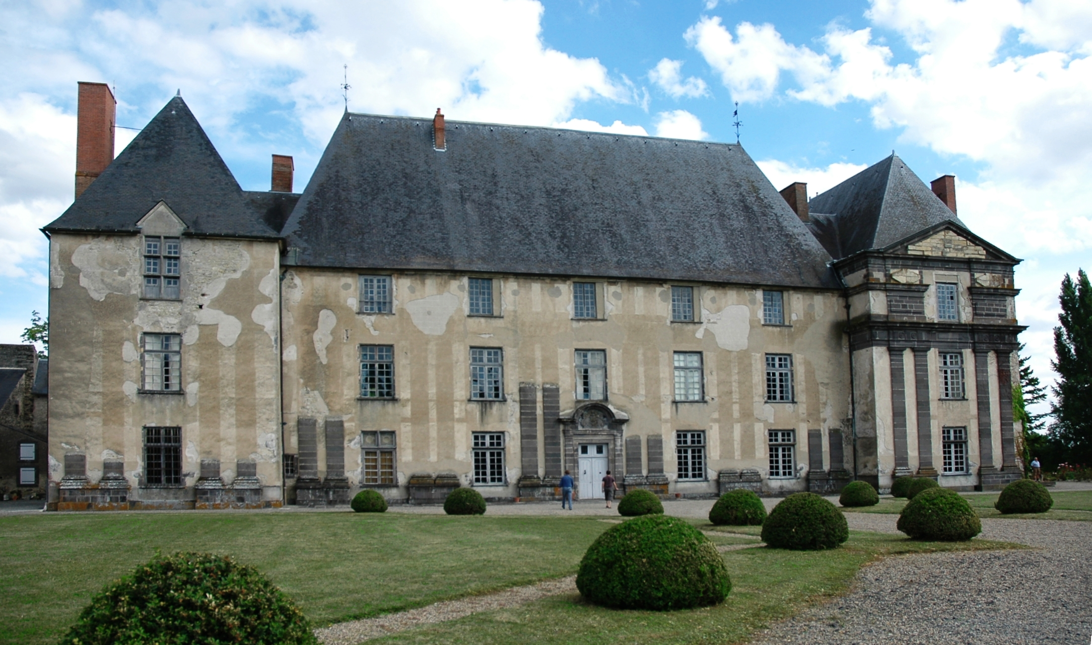 Castle of Effiat (Auvergne), built in 1627 for Antoine Coiffier de Ruzé (1581–1632), Marquis of Effiat and marshal of France. His son was the Marquis of Cinq-Mars (1620–1642), a favorite of King Louis XIII of France who led the last and most nearly successful of the many conspiracies against the king's powerful first minister, the Cardinal Richelieu.